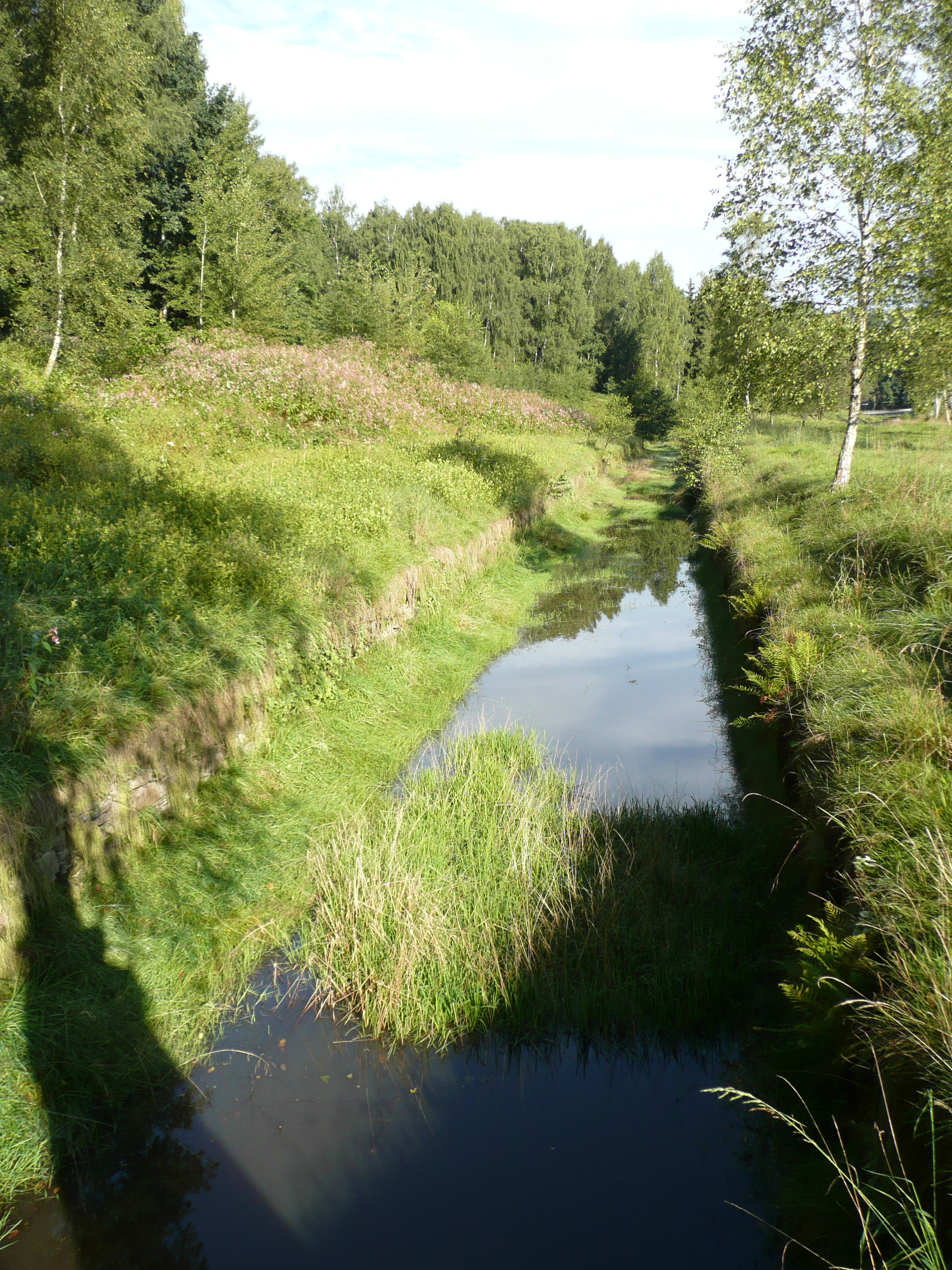 Churprinzer Bergwerkskanal below the „Annaer Wäschwehr“